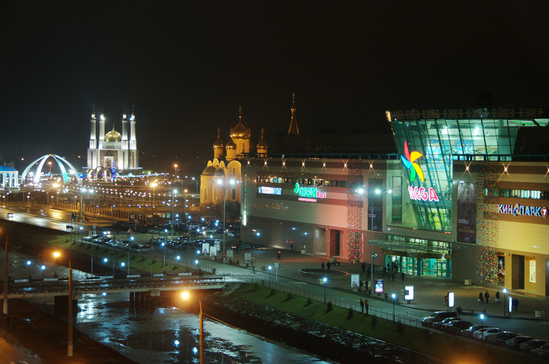 View of downtown of Aktobe city